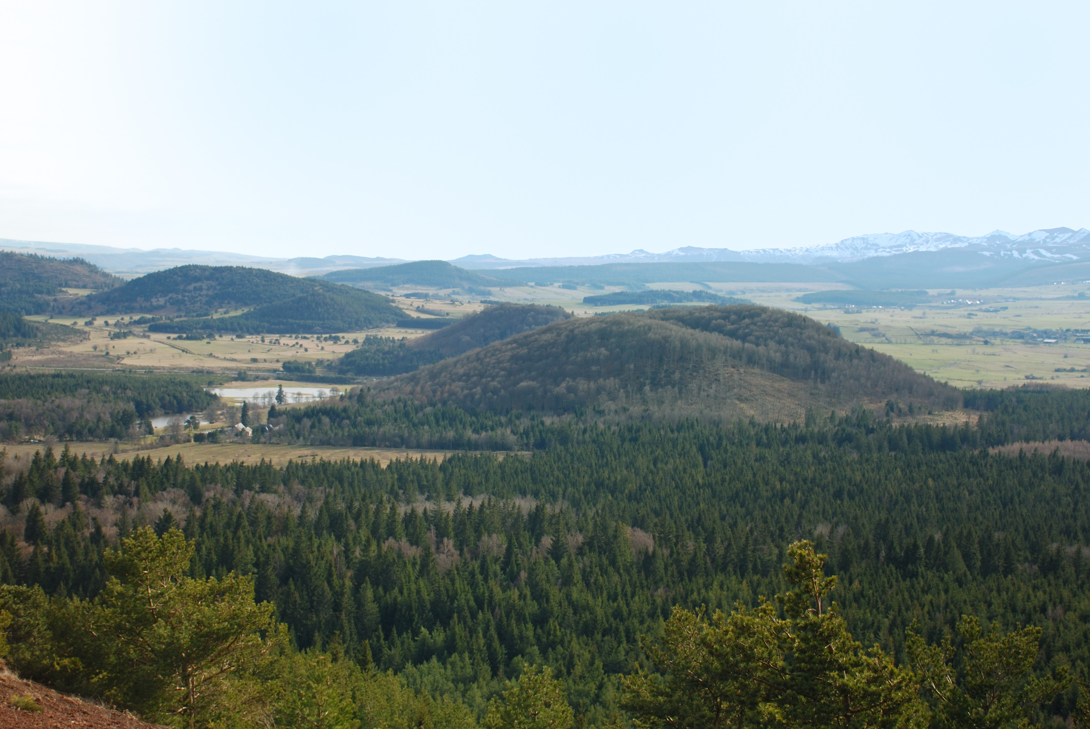 Puy de Montchal (1094 m) from Puy de Lassolas (Puy-de-Dôme, France).